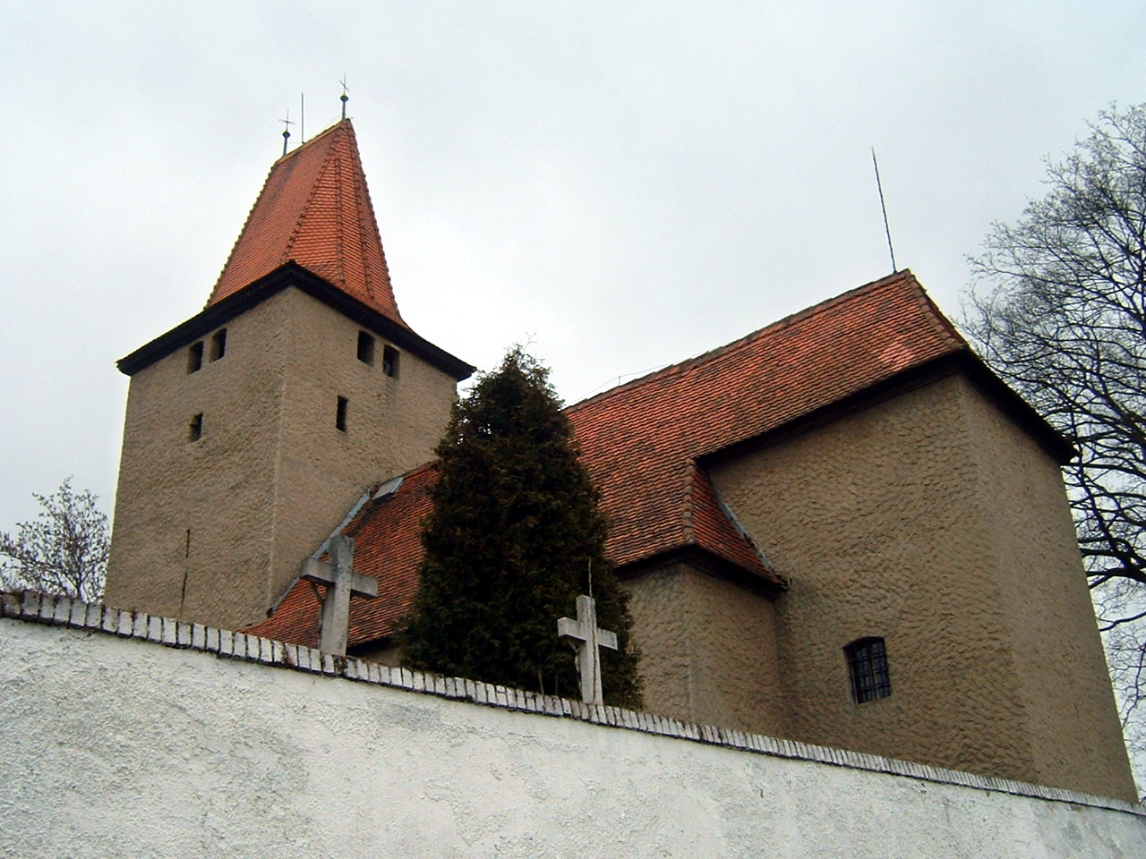 Picture of St Nicholas church in Milhostov, Cheb District, Czech Republic, taken by user Historyk, March 2005.